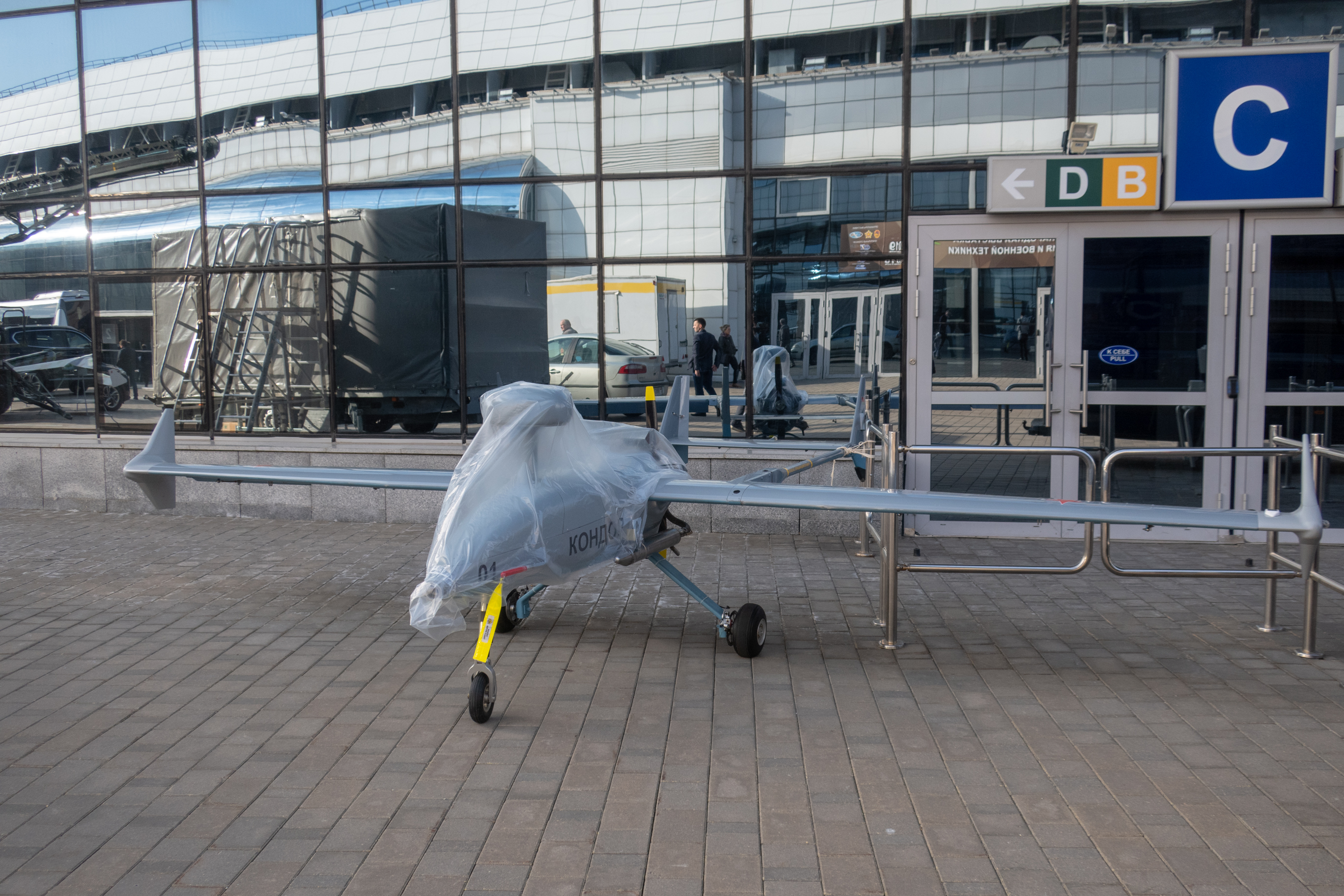 UAV at Milex-2019 arms and military machinery exposition (Minsk, Belarus)